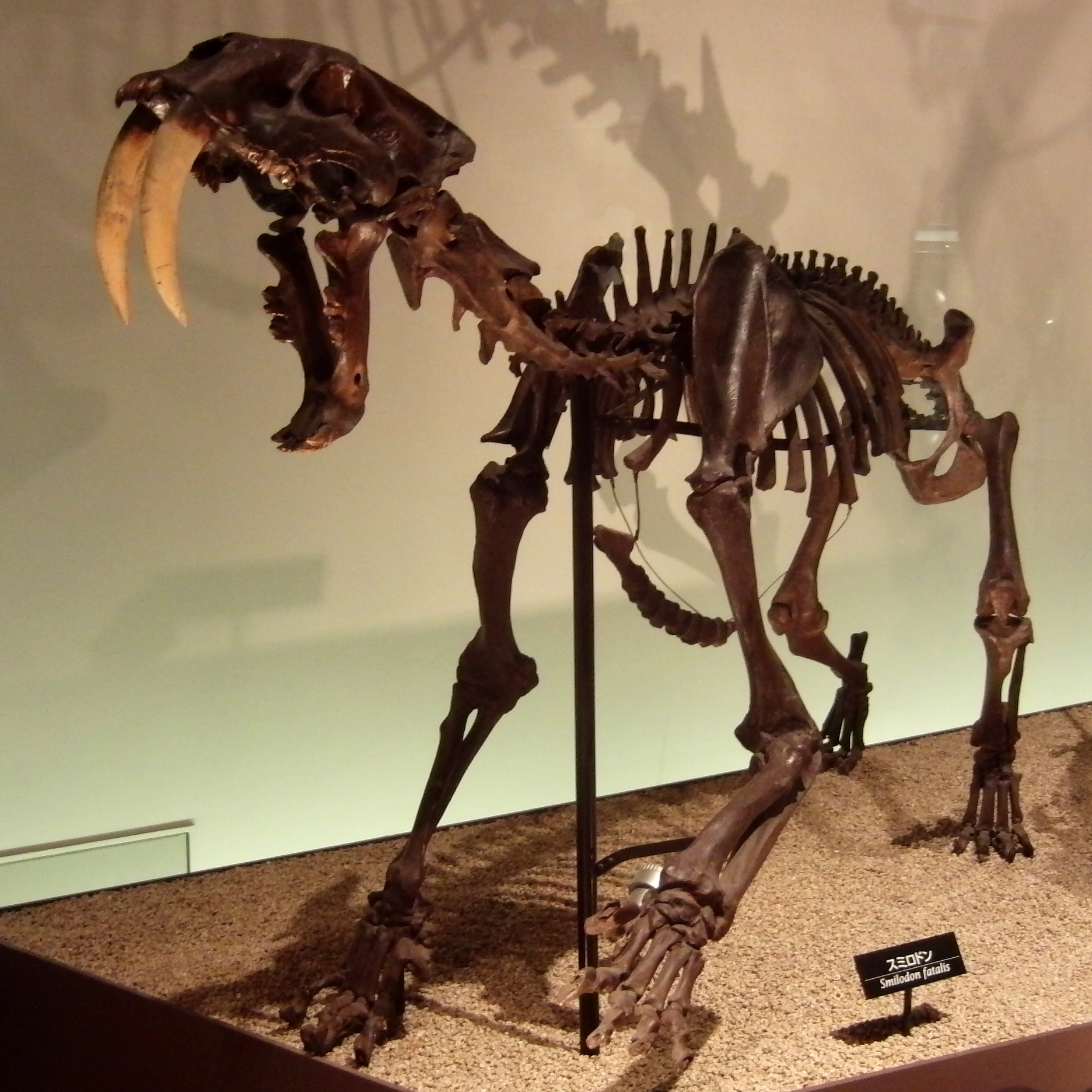 Skeleton of Smilodon (Smilodon fatalis). Exhibit in the National Museum of Nature and Science, Tokyo, Japan.